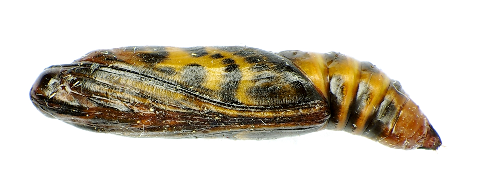 Pupa of Eurrhypara hortulata